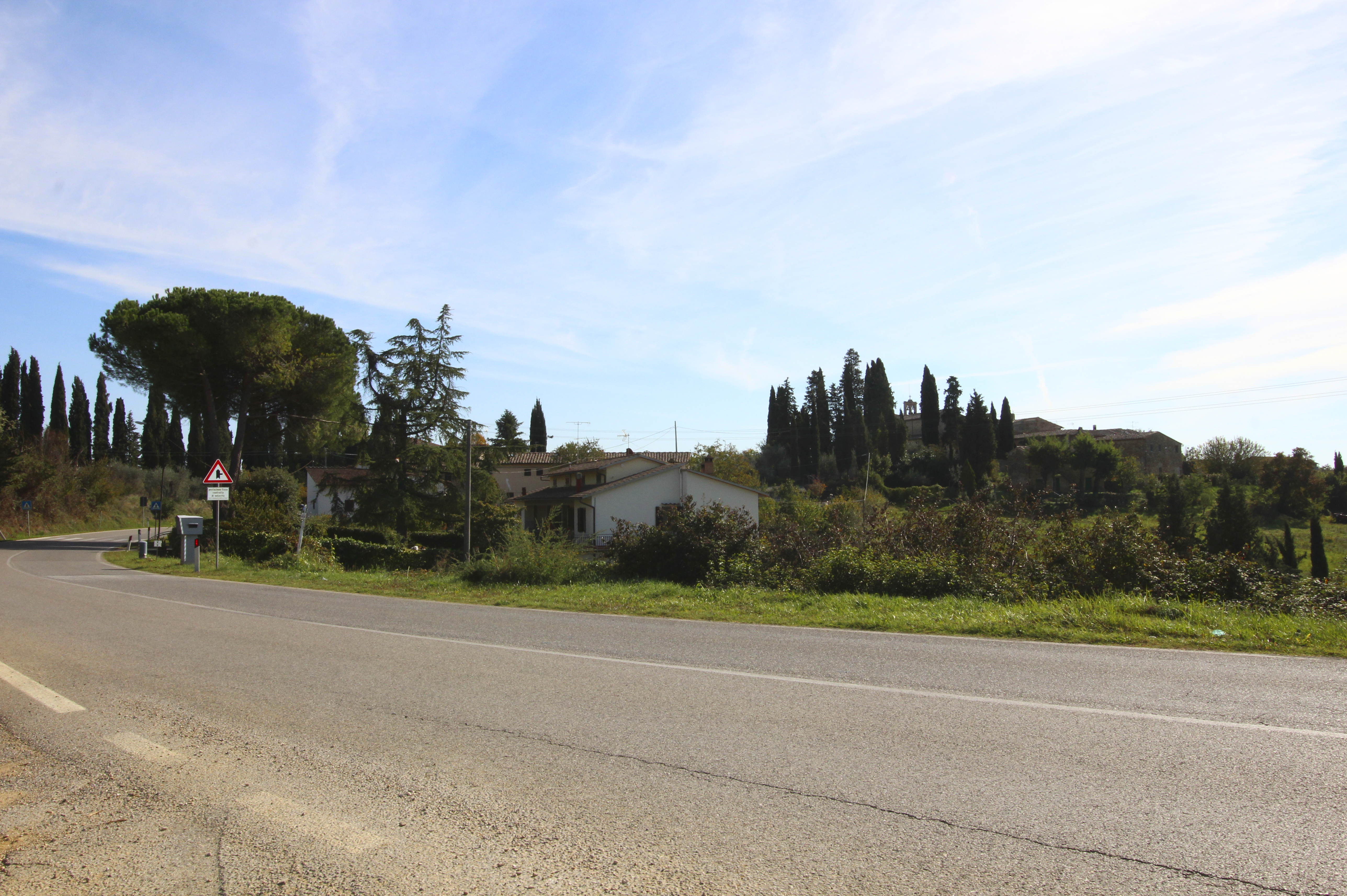 (Il) Morrocco, village of Tavarnelle Val di Pesa, Comune in the Metropolitan City of Florence, Tuscany, Italy